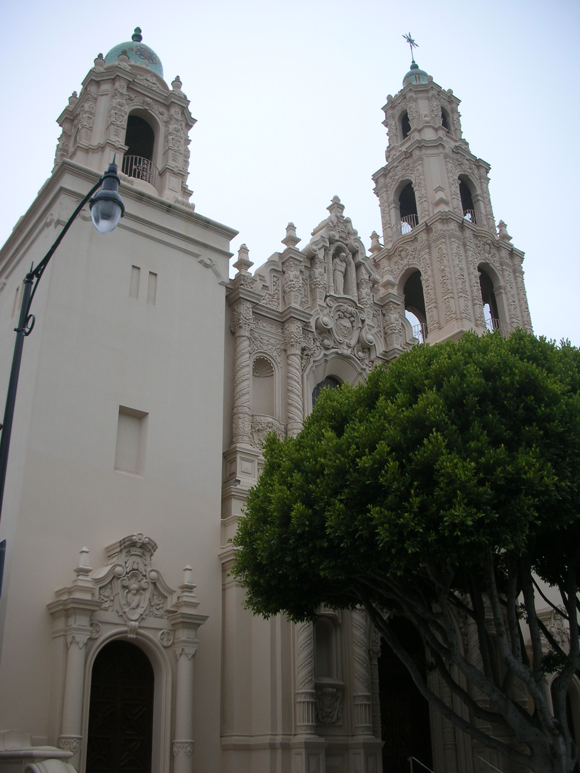 New church in Mission Dolores ( San Francisco)